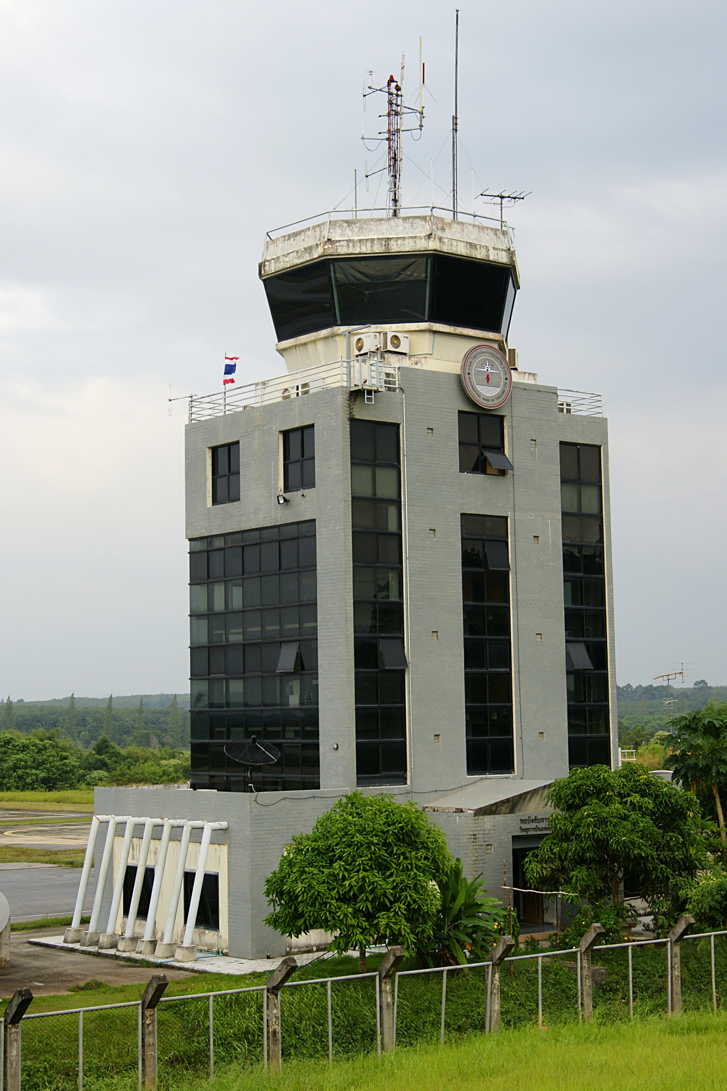 The tower of Krabi Airport, Thailand